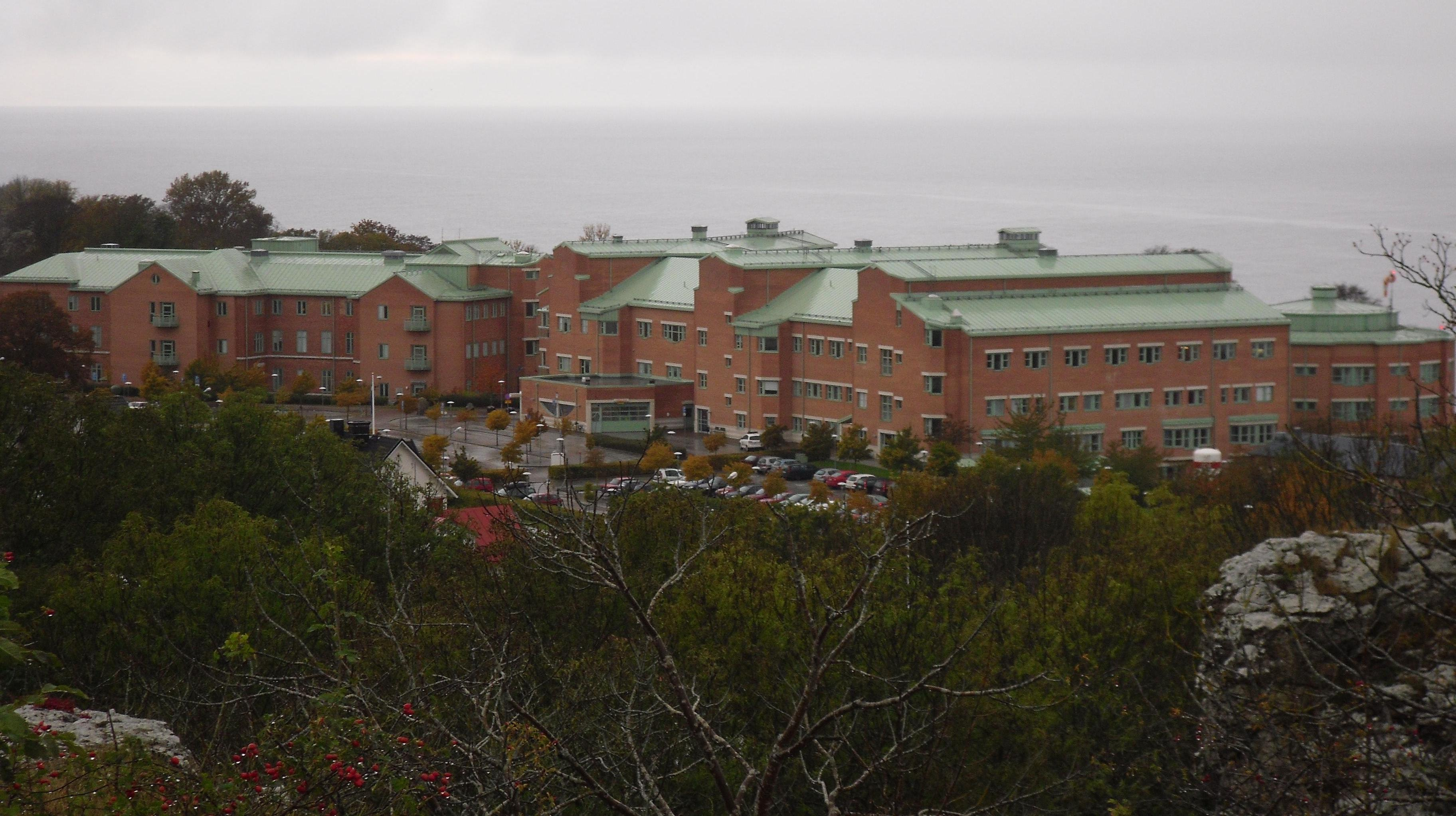 Visby Hospital in Visby, Sweden.